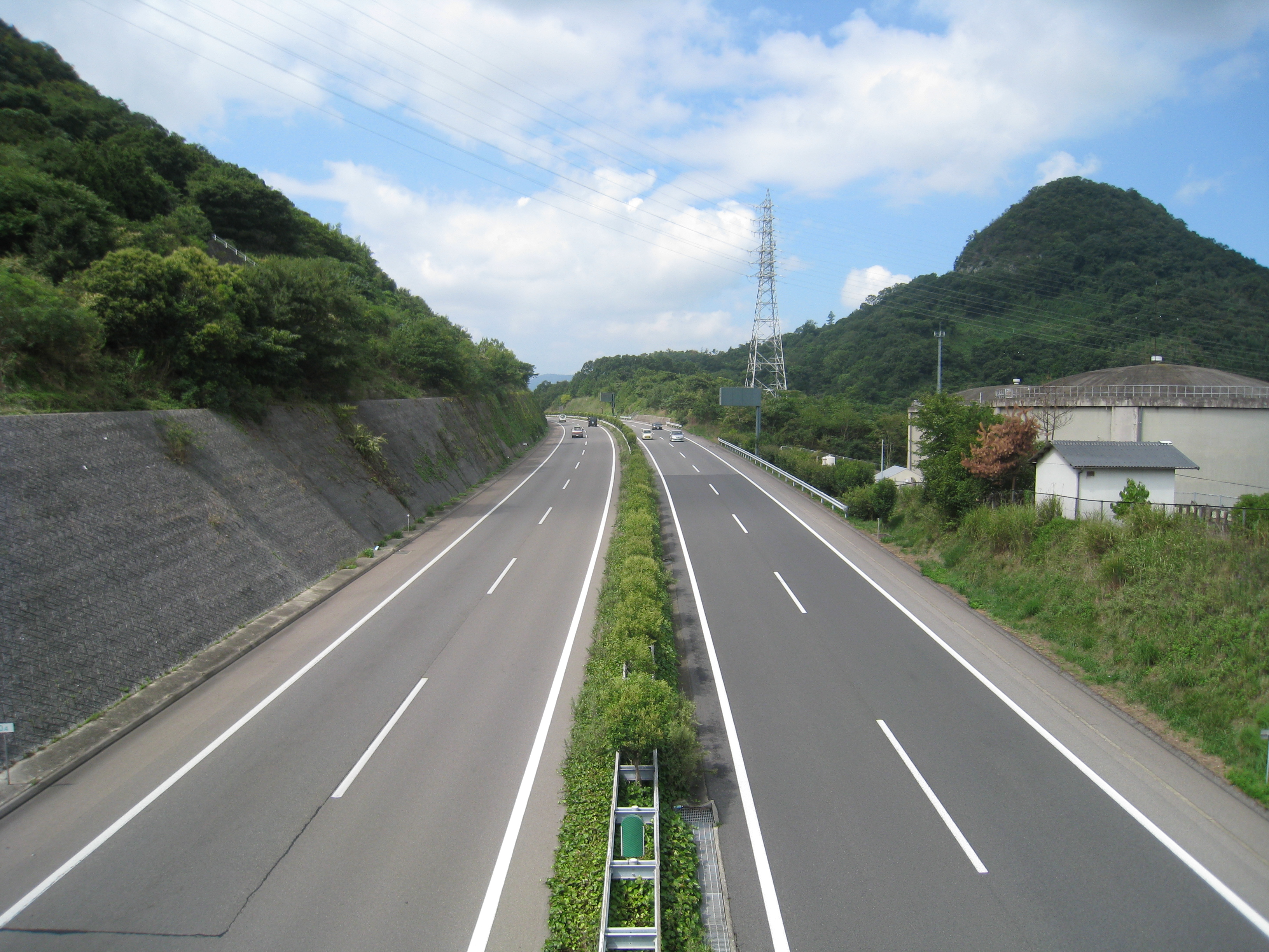 Takamatsu expressway near Mt. Mutsumeyama